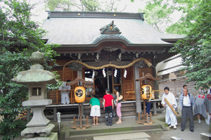 ARIKAJINJYA